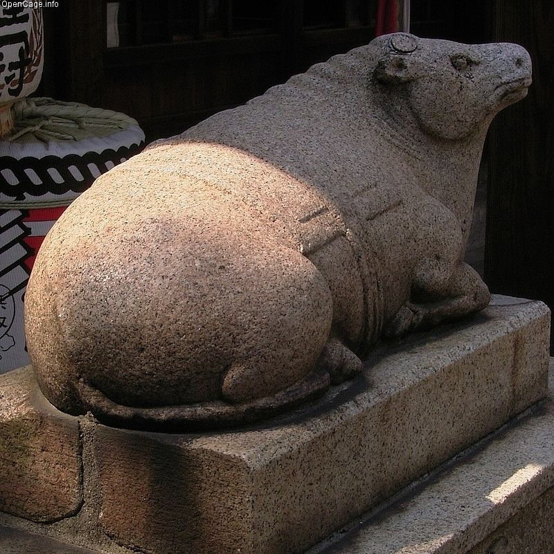 Statue of cattle, as Shinshi, at Hashiudo-jinja, in Kobe.